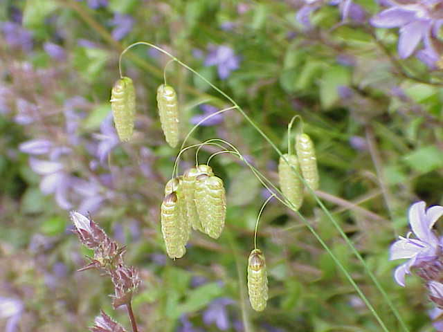 Species: Briza maxima Family: Poaceae Image No. 1